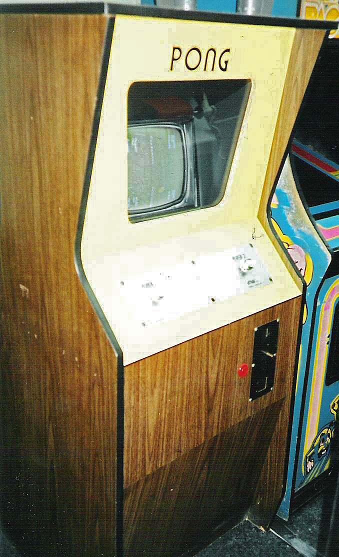 An original Atari Pong video game console on display at an exhibition in Vienna in 1998.